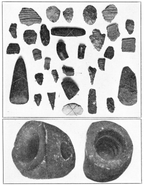 Photograph of various Native American relics found on Spanish Hill